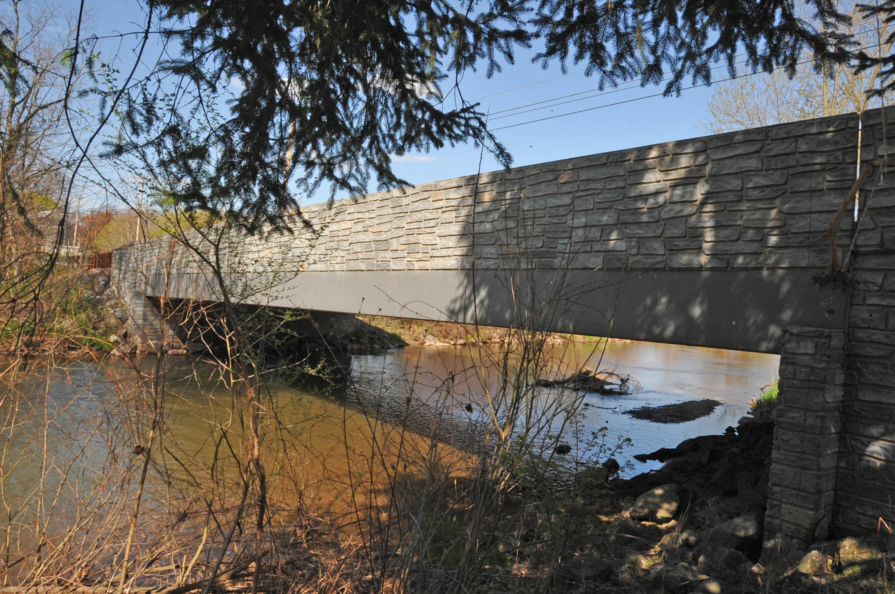 BUILT IN 1906 WITH INCISED PANELED CONCRETE PARAPETS; BECAUSE OF DETERIORATION THERE HAS BEEN EXTENSIVE REPAIRS CIRCA 1996 AND AFTERWARD